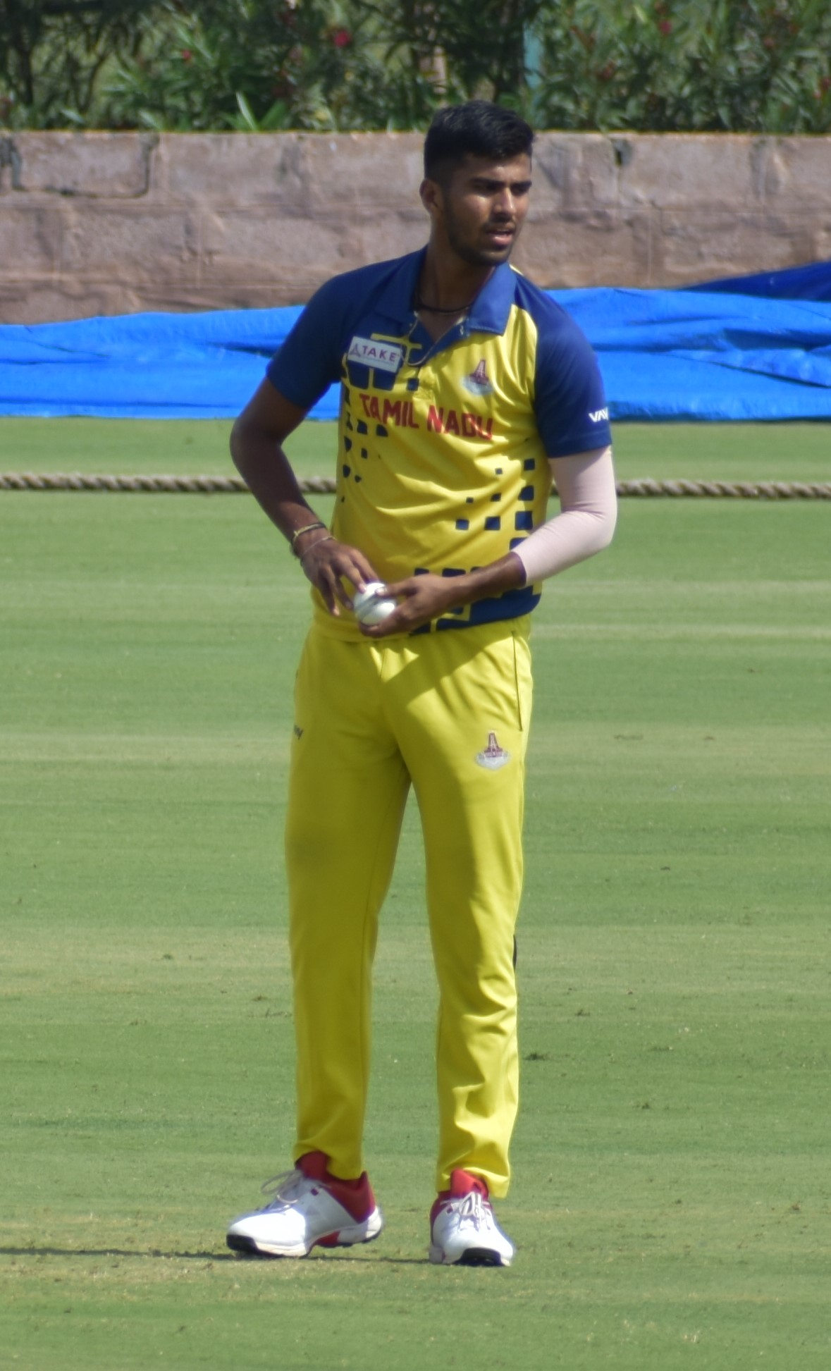 Indian cricketer Washington Sundar during the 2019-20 Vijay Hazare Trophy in Alur, Bangalore.